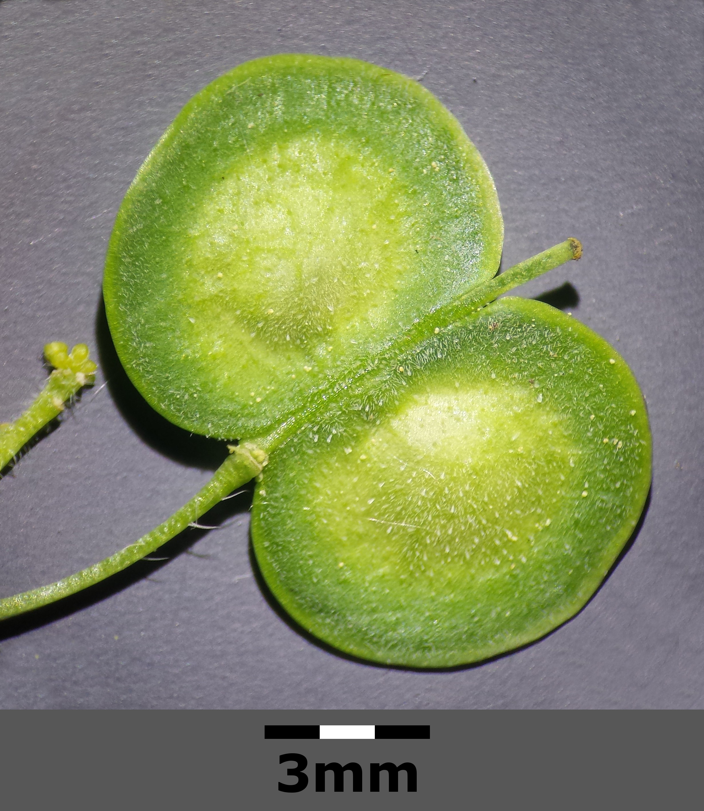 Silique Taxonym: Biscutella laevigata subsp. kerneri ss Fischer et al. EfÖLS 2008 ISBN 978-3-85474-187-9 Location: Biratalwand Dürnstein, district Krems-Land, Lower Austria - ca. 350 m a.s.l. Habitat: rocky slope